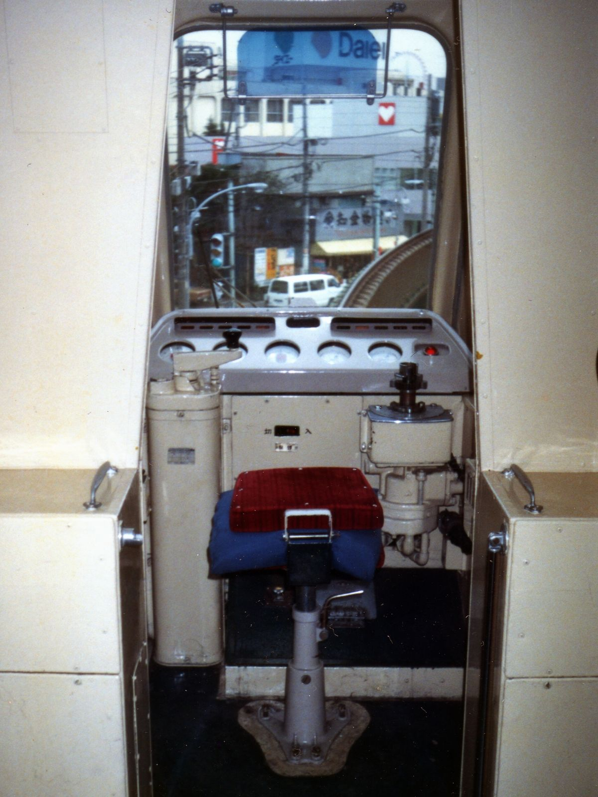 Cockpit of Odakyu Electric Railway Company, EMU Type 500